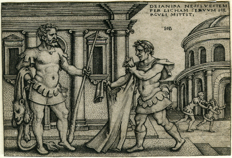 Beham, (Hans) Sebald (1500-1550): Lichas bringing the garment of Nessus to Hercules (B. 98, P. 108 ii/ii) from The Labours of Hercules (1542-1548). Final state.